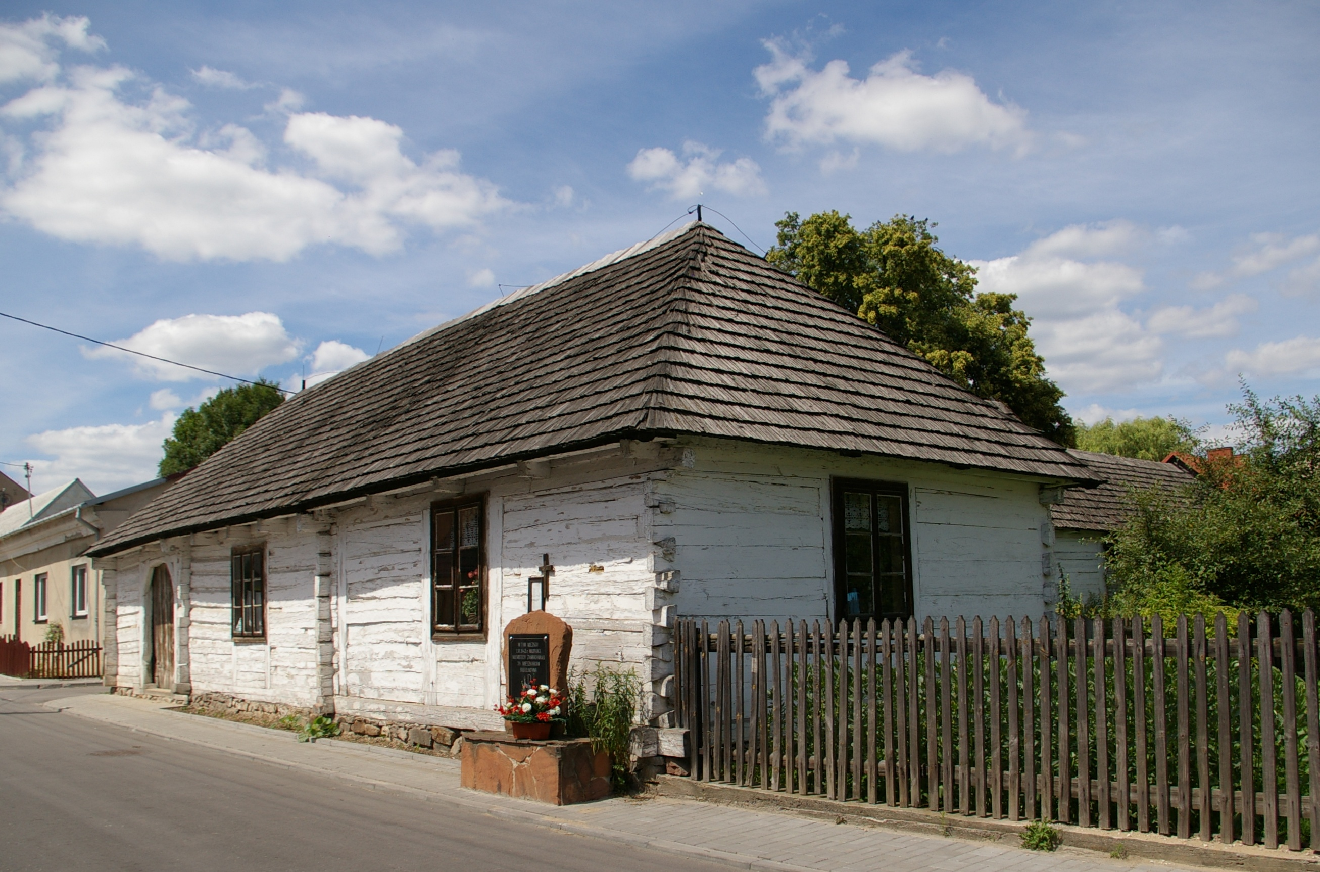 Old farmhouse in Bodzentyn, Poland